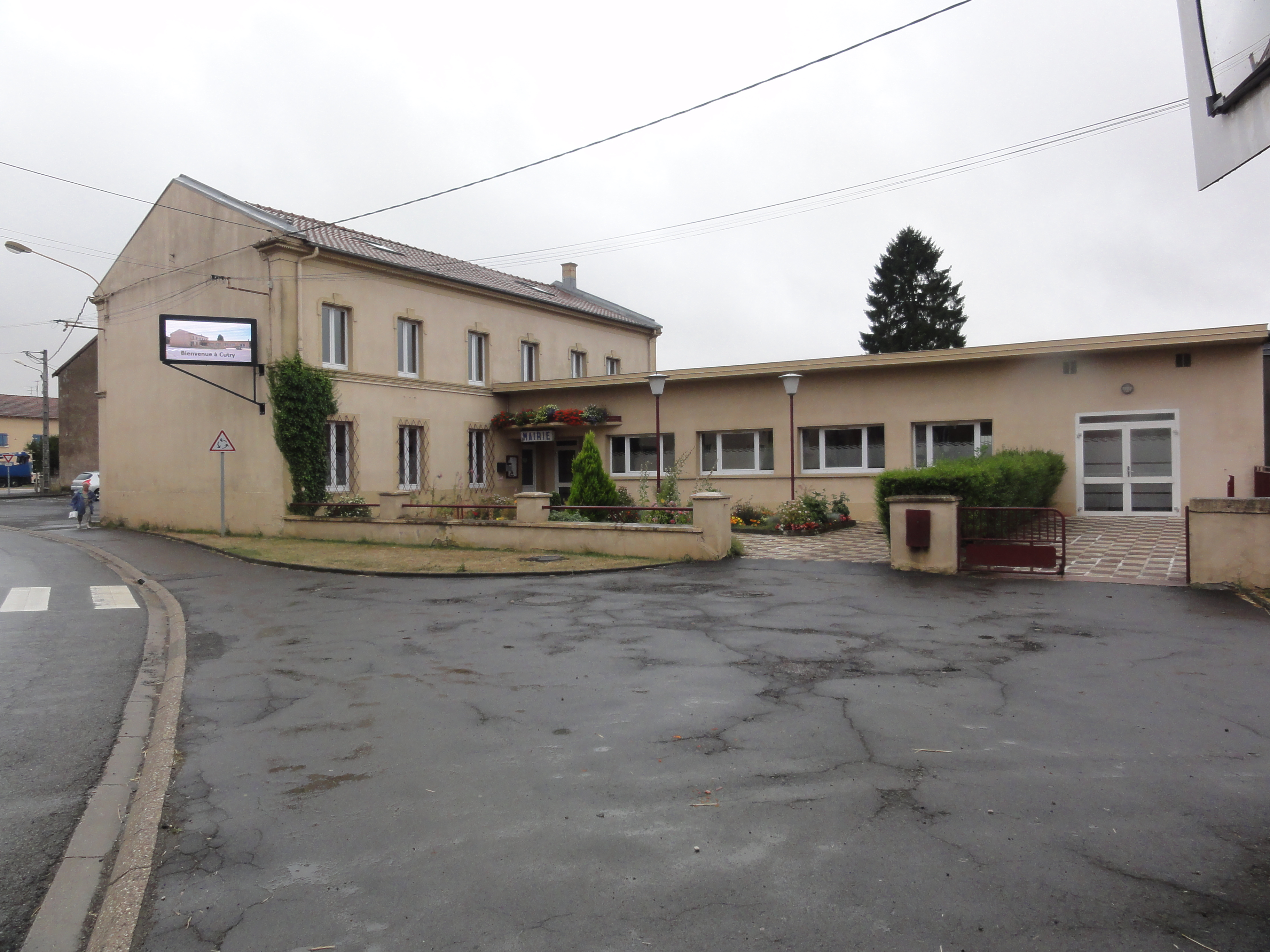 Cutry (Meurthe-et-M.) mairie